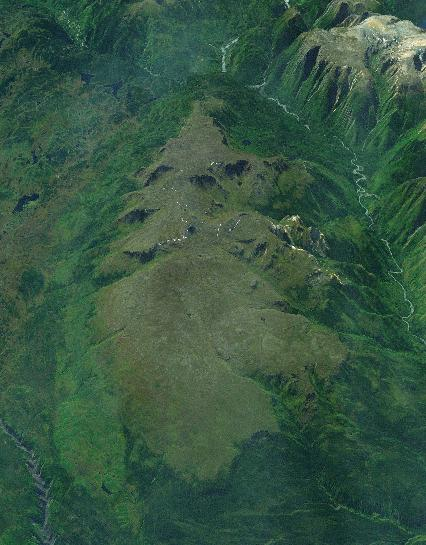 Heart Peaks seen from the north.